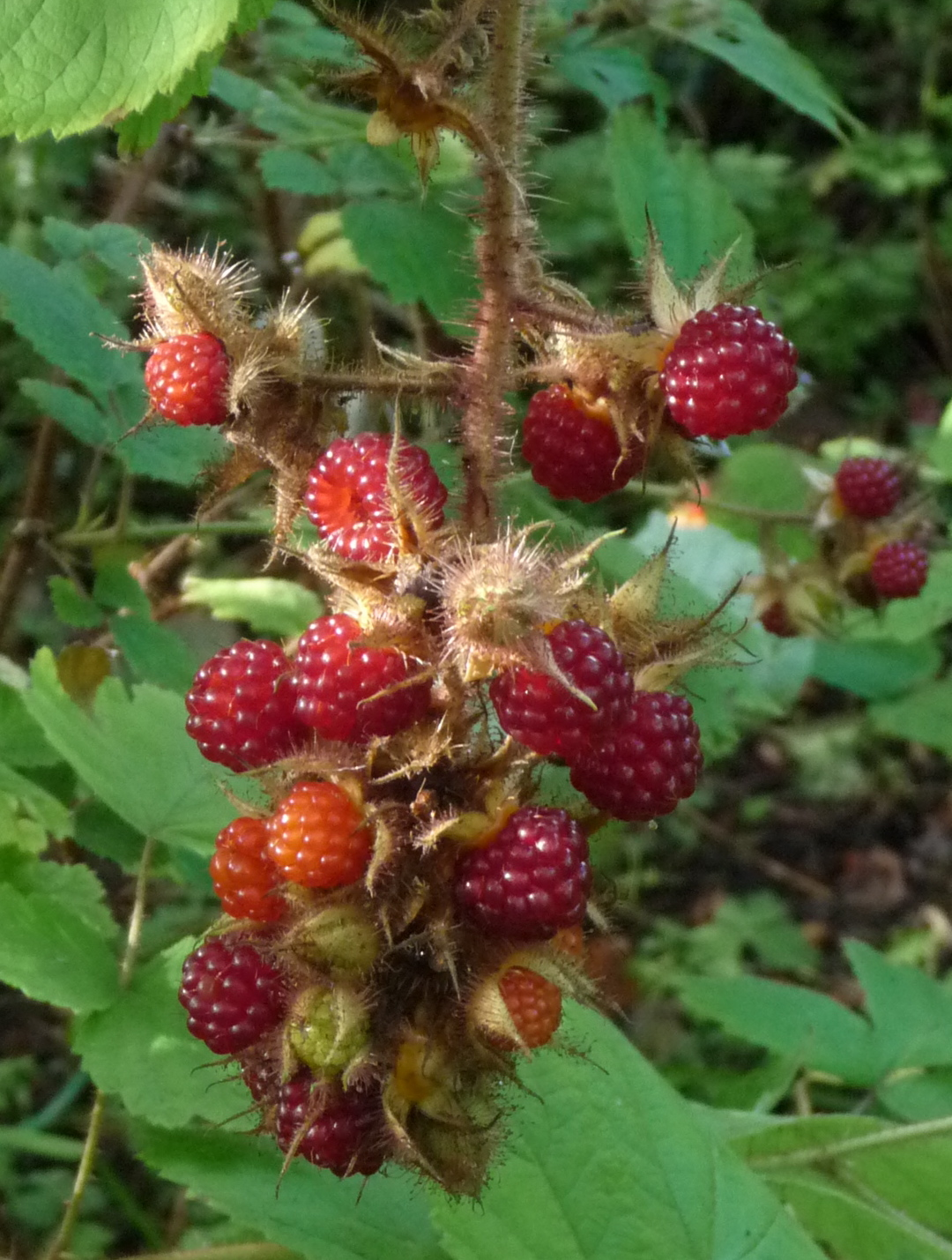 Co. Kerry, Ireland